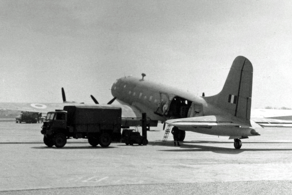 Handley Page HP.67 Hastings Met Mk.1 TG505 A-B of 202 Squadron RAF Coastal Command at Manchester (Ringway) Airport in 1954